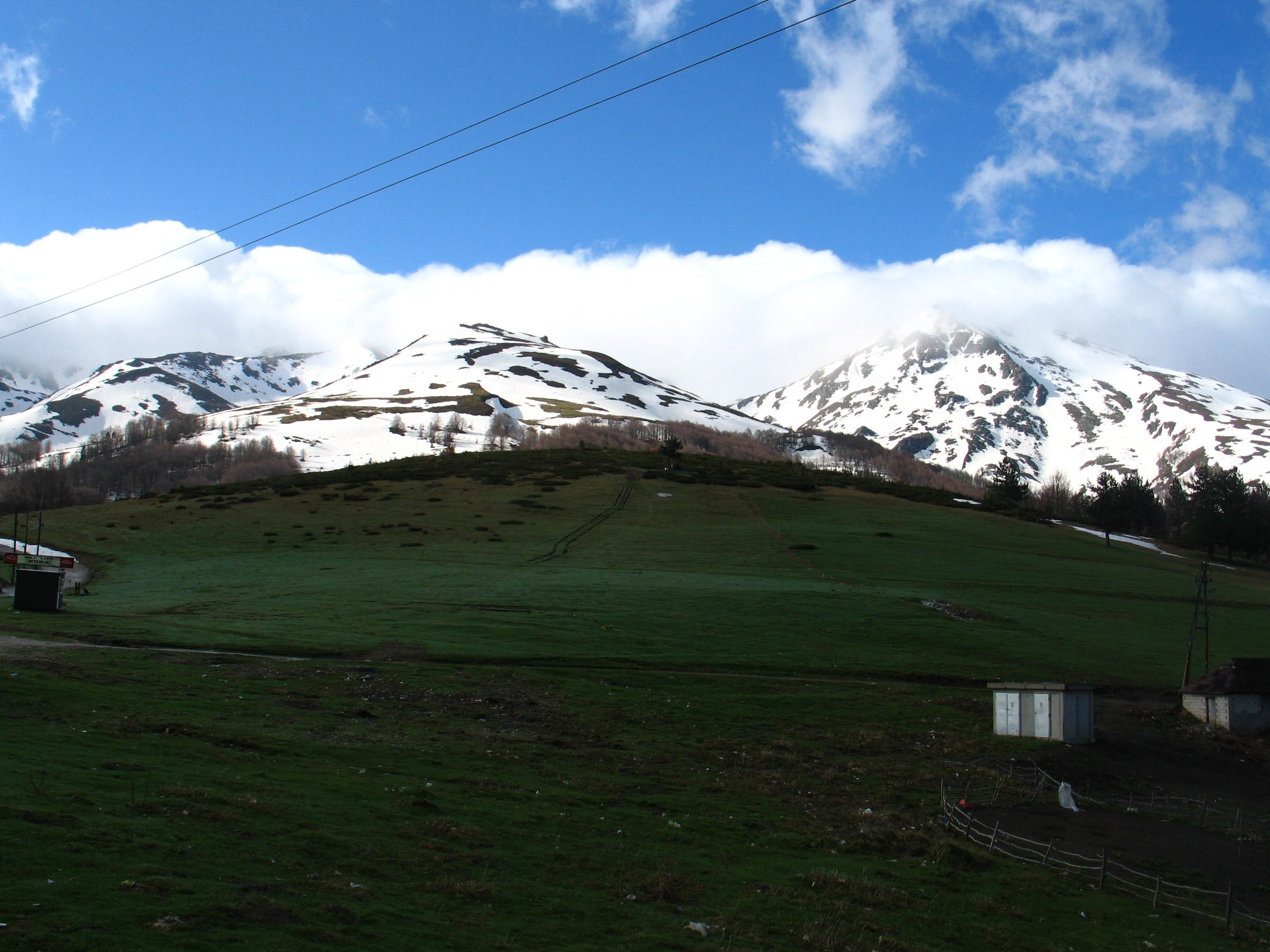 Šar Planina mountains seen from Šrpce, southern Kosovo